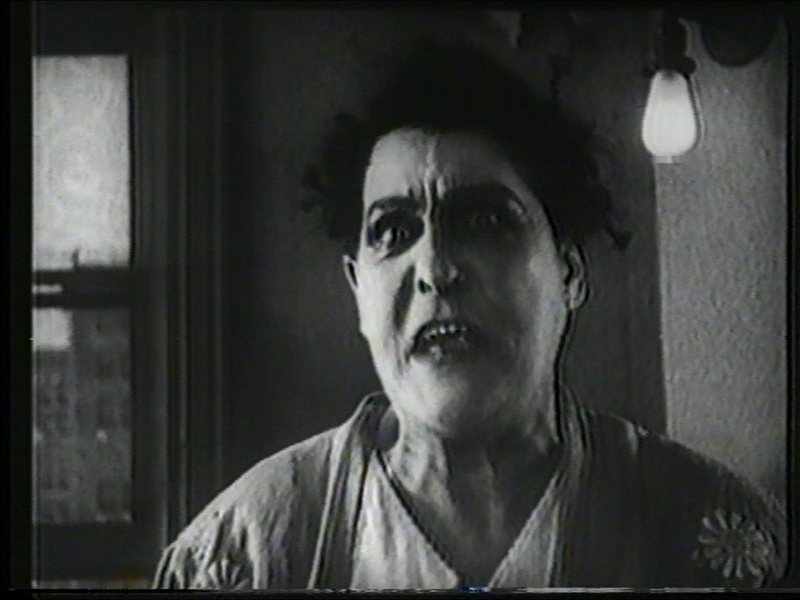 Phyllis Allen from "Pay Day".